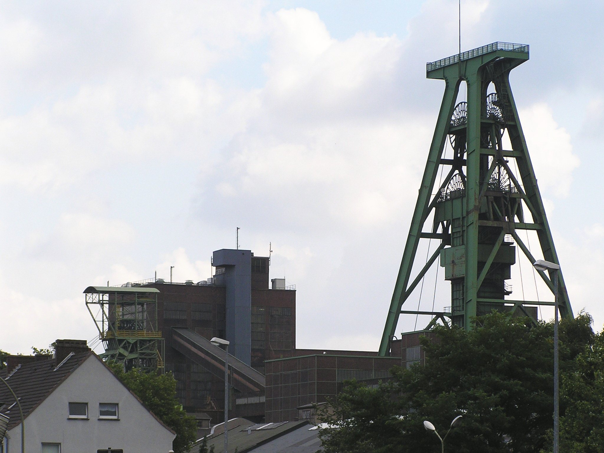 pits 1 and 2 of the coal mine "Lohberg", Dinslaken